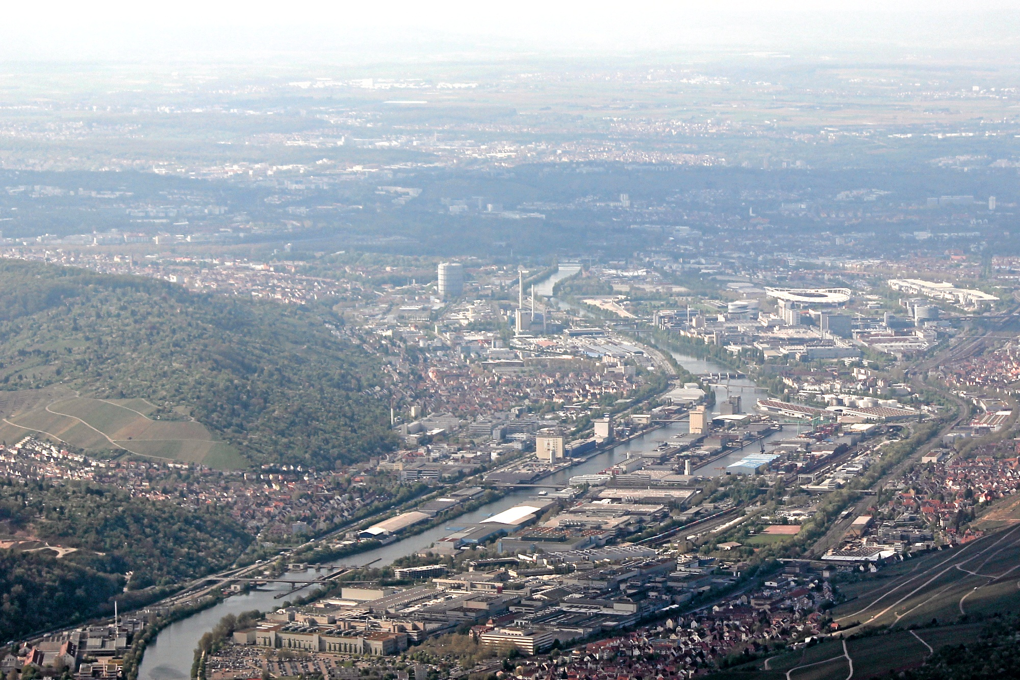 Aerial view of Stuttgart, facing Untertürkheim with the Daimler facilities, the Neckar river and adjacent suburbs including Bad Cannstatt with the stadium.